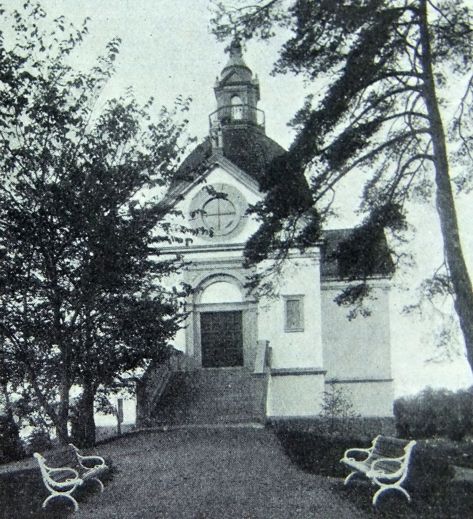 Facility for cremation in northern Stockholm cemetery built in 1909, architect G. Lindgren. Modified early Renaissance in three floors. With a hydraulic elevator device lowering the coffin into the chapel floor to the incinator room below, interspersed into the bedrock.